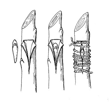 line art drawing